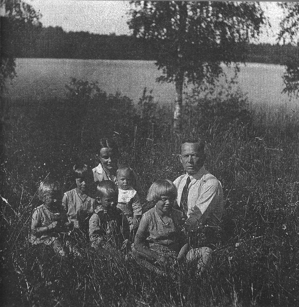 Vieno and Oski Simonen with their children.